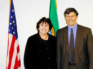 U.S. Rep. Jay Inslee held a "Mayors' Meeting" on January 26, 2001, in order to hear the concerns of local community leaders, and figure out how to best work together on certain issues. Inslee heard the concerns of Redmond's mayor, Rosemarie Ives